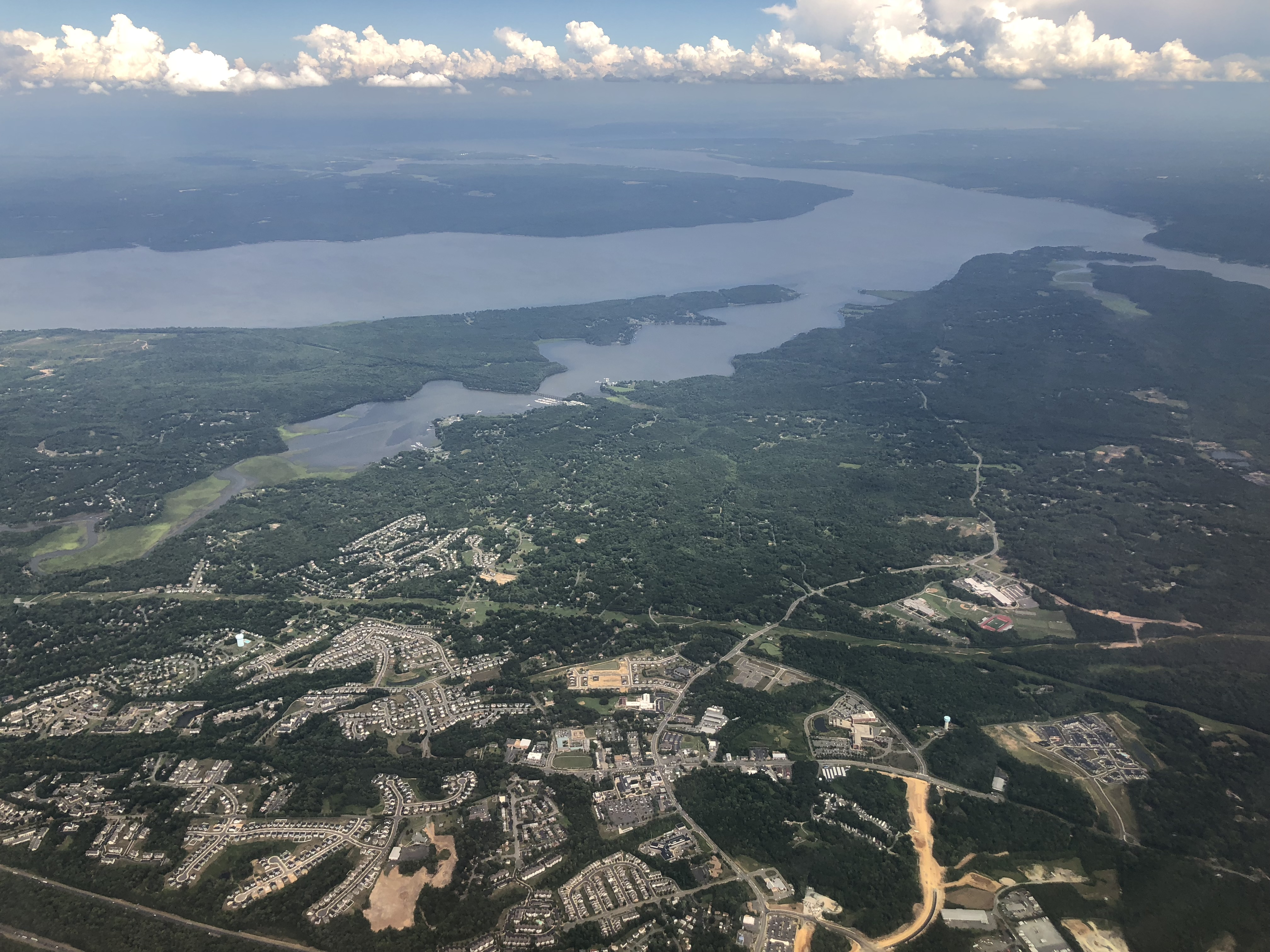 View east across Stafford Courthouse towards the Aquia Creek and the Potomac River in eastern Stafford County, Virginia from an airplane heading for Washington Dulles International Airport